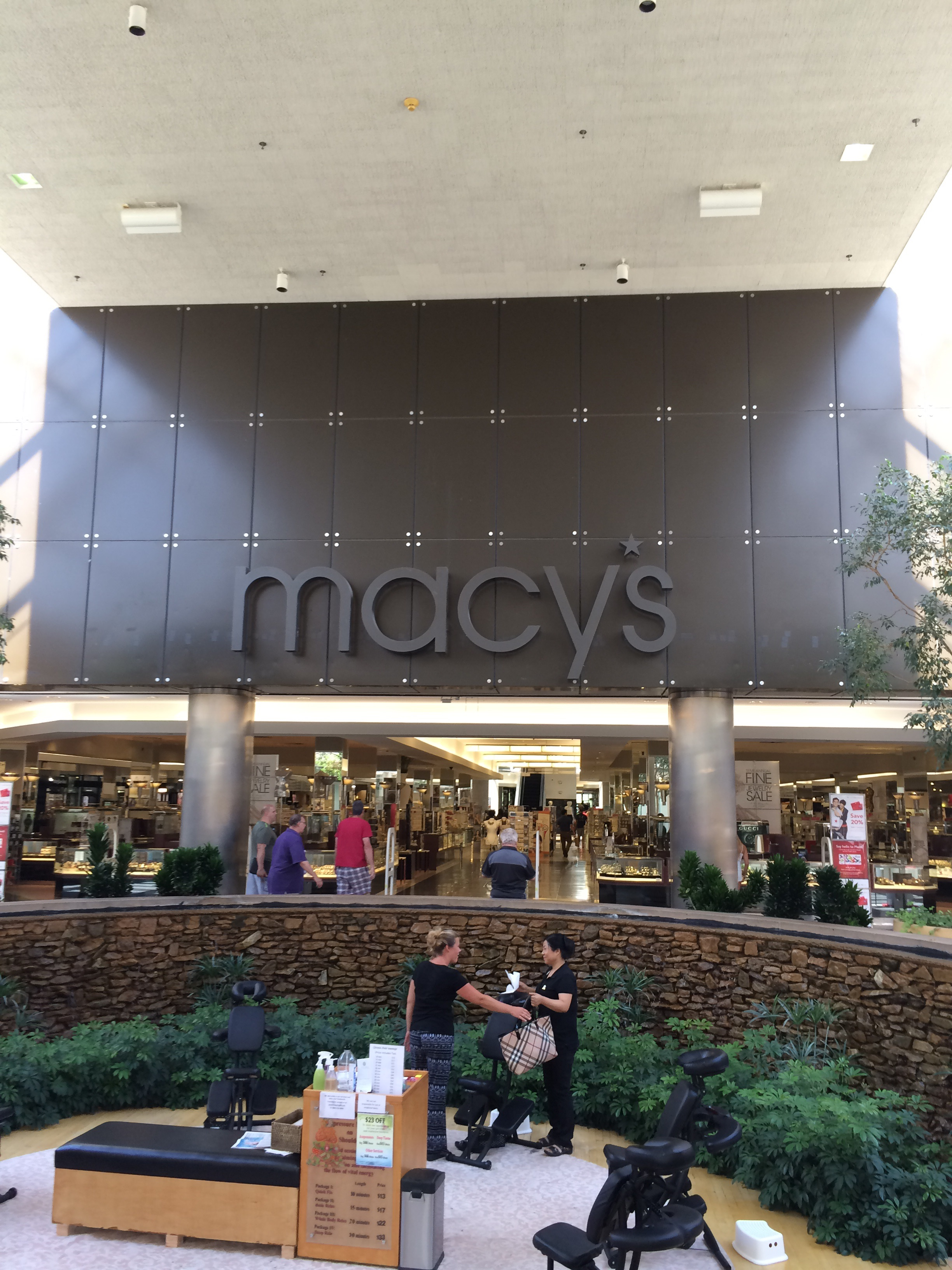 The Macy's anchor store, located at the north end of the mall